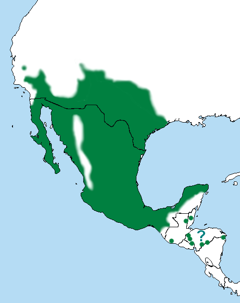 Picoides scalaris Distribution Map